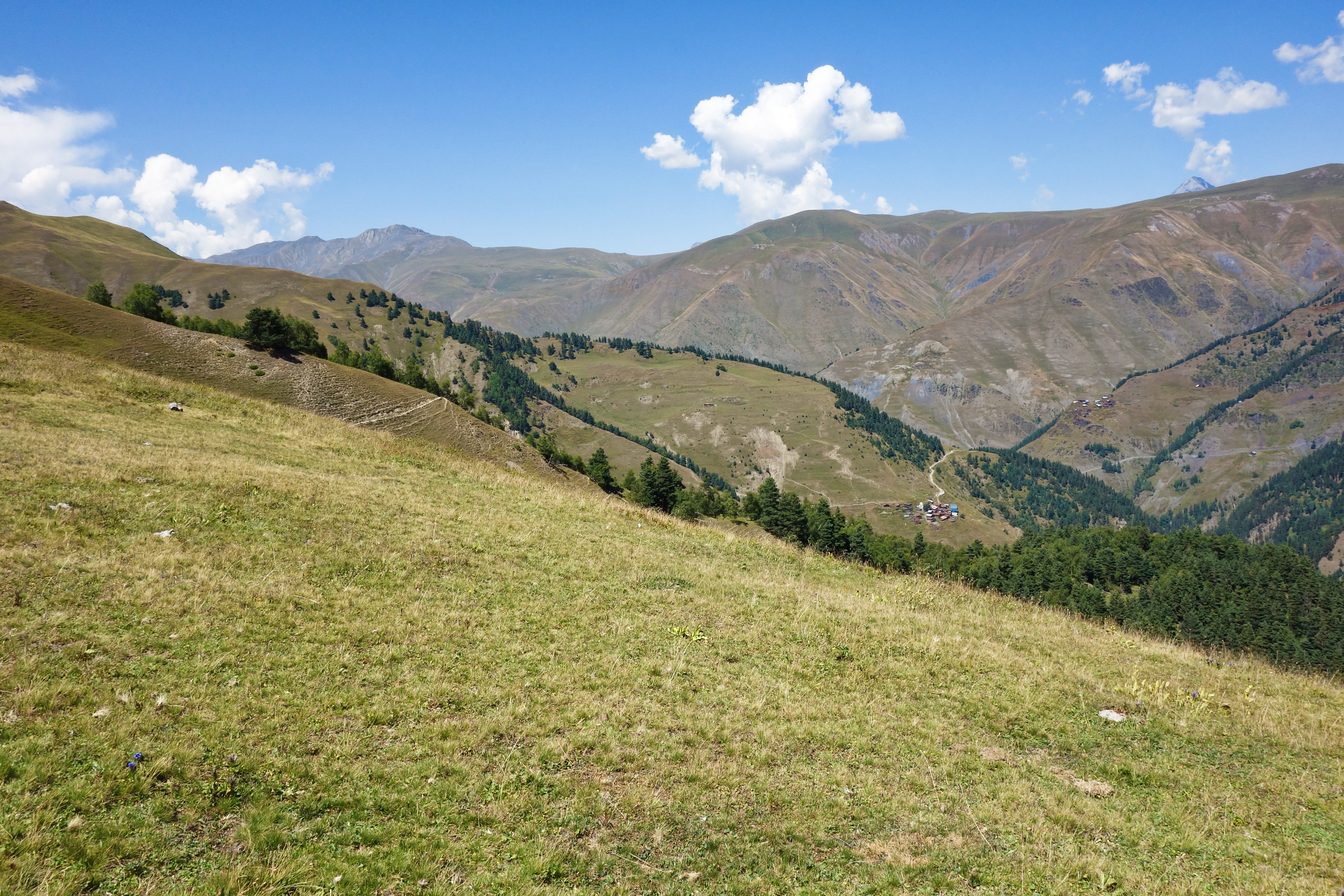 Makratela Range (view from the vicinity of Vestomta), Tusheti. Mount Tsiva (3,362 m) is on the left. Villages Ilurta and Beghela are seen.